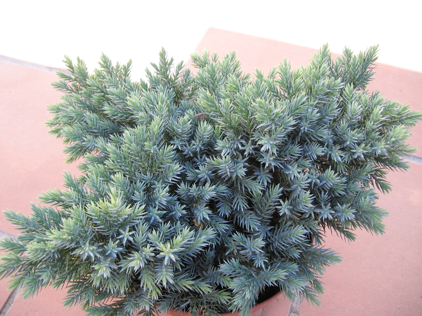 Juniperus squamata